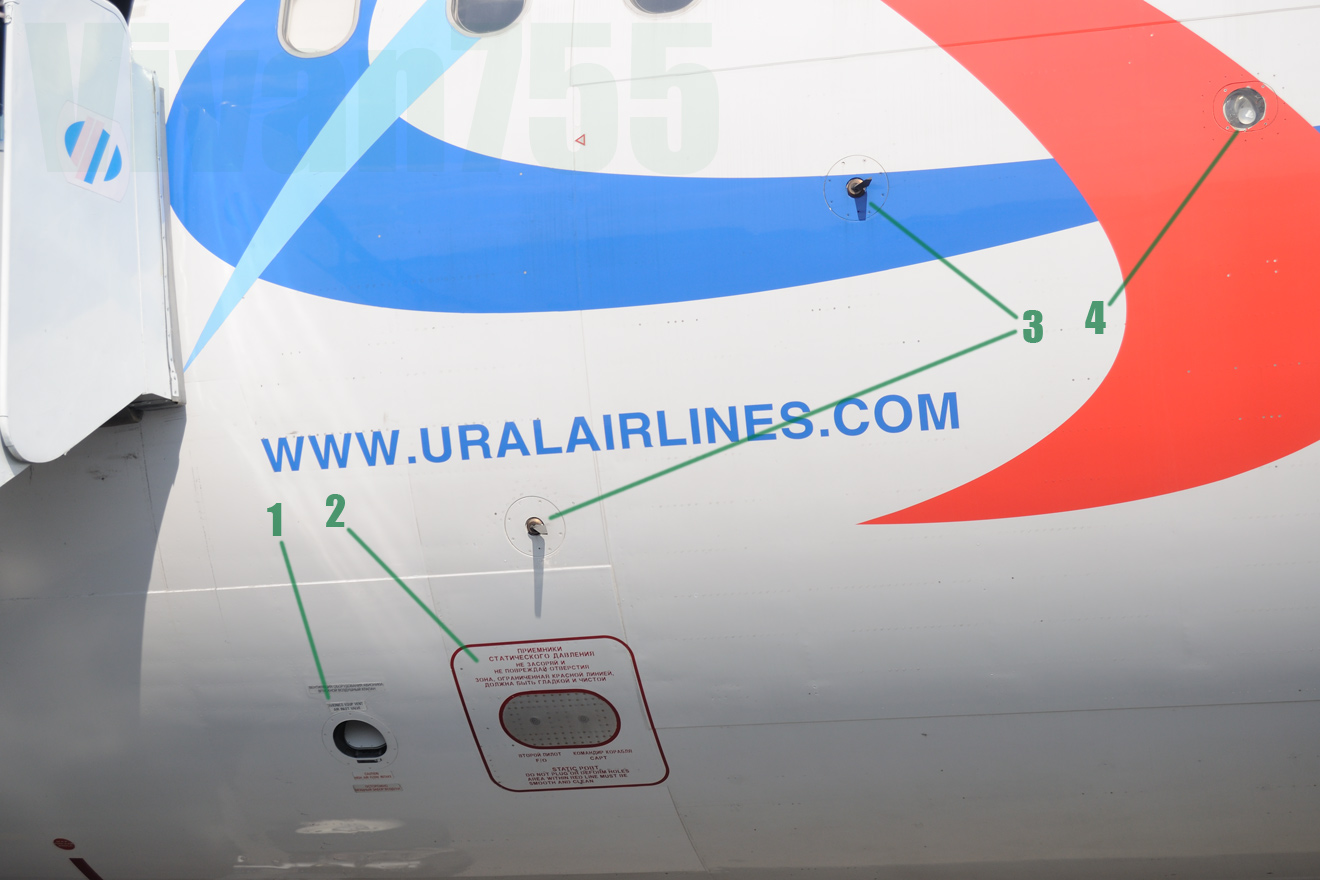 1 — avionics vent air inlet valve, 2 — static port, 3 — alpha transducers, 4 — wing light